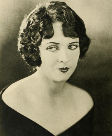 Publicity photo of Jacqueline Logan from Stars of the Photoplay JACQUELINE LOGAN has had a career that has been brilliant. Born in San Antonio, Texas, on November 30, 1901. Was a student in Colorado College. Early in life she showed promise of journalistic ability and began her working career on a newspaper, but forsook that for the stage. Prior to entering pictures, she appeared at the Century Theatre in New York at the age of nineteen. Distinguished for her work as leading woman in "Burning Sands," "Ebb Tide" and "Sixty Cents an Hour." Height, five feet, four inches; weight, 122 pounds. Has auburn hair and violet eyes. Unmarried.